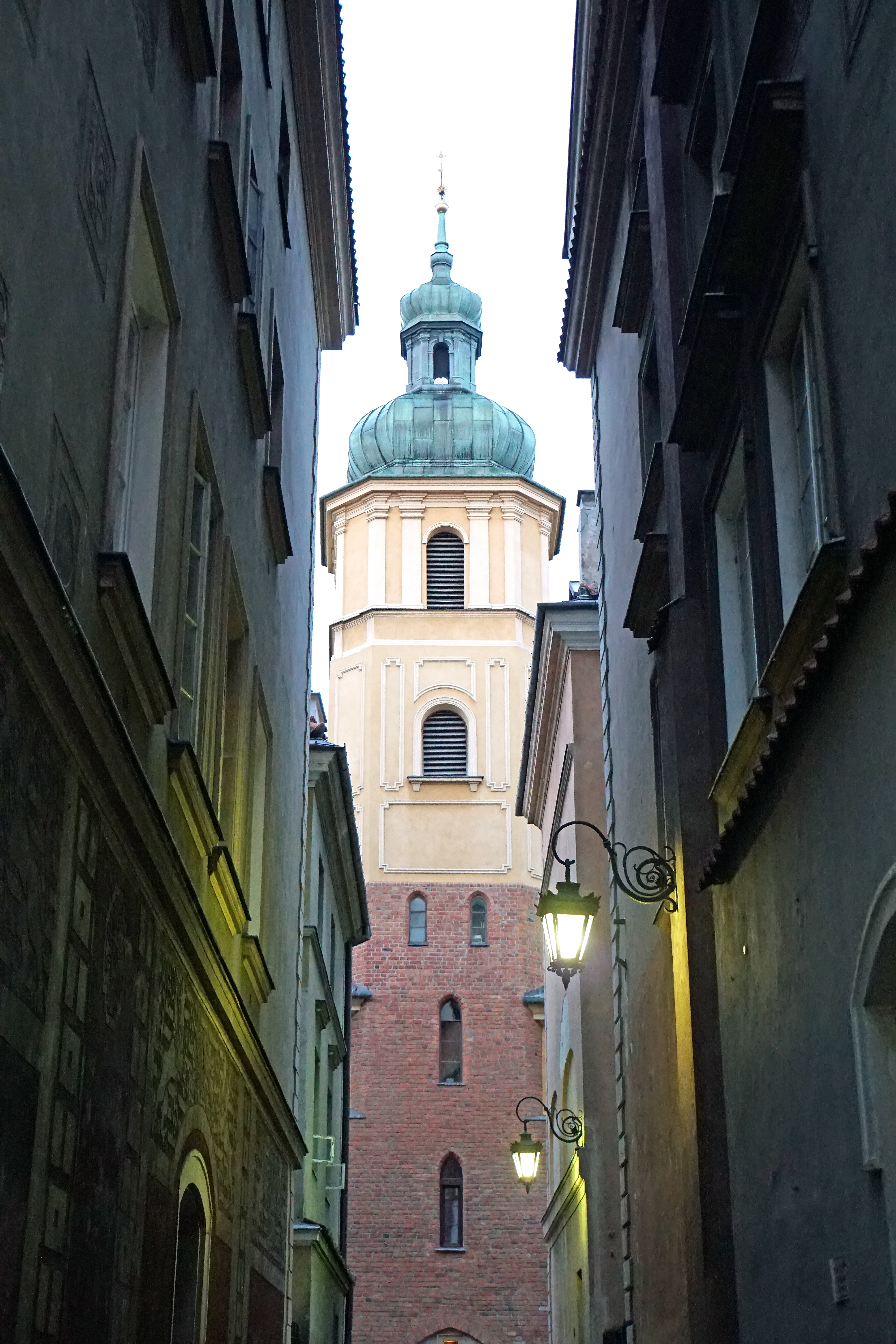 PLEASE, NO invitations or self promotions, THEY WILL BE DELETED. My photos are FREE to use, just give me credit and it would be nice if you let me know, thanks. Saint Martin's Church was established in 1353 together with the adjacent Augustinians cloister and a hospital of the Holy Ghost within the walls by Siemowit III duke of Masovia and his wife Eufemia. After some fires, which destroyed the church in 15th and 17th century, the church was reconstructed in about 1744. St. Martin's was used by the Solidarity members who met here in secret before and during martial law. These people deserve great praise in their contribution to the fall of communist rule in Poland.